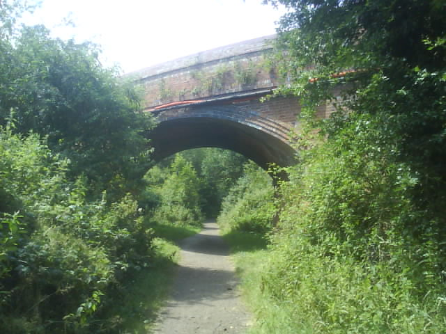 The B2130 bridge over the former path of the Guildford to Horsham railway line (facing towards Bramley).